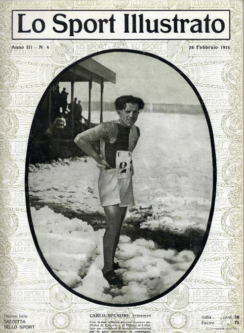 The Italian athlete Carlo Speroni on the cover of the Milanese newspaper Lo Sport Illustrato (Sports Illustrated).